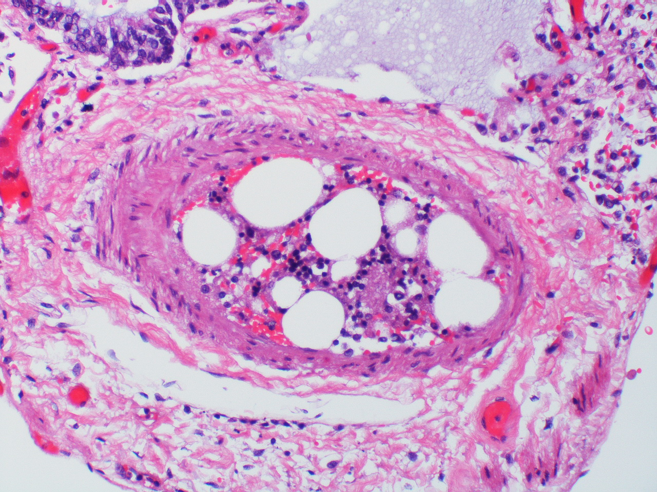 Bone marrow embolus